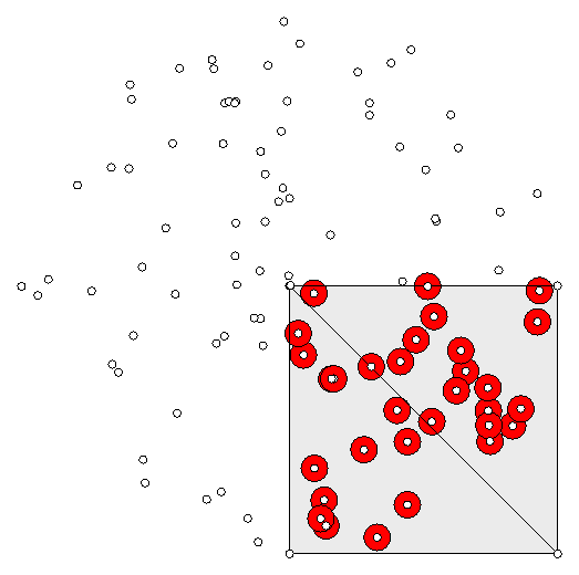 Using spatial expression with CLACL.